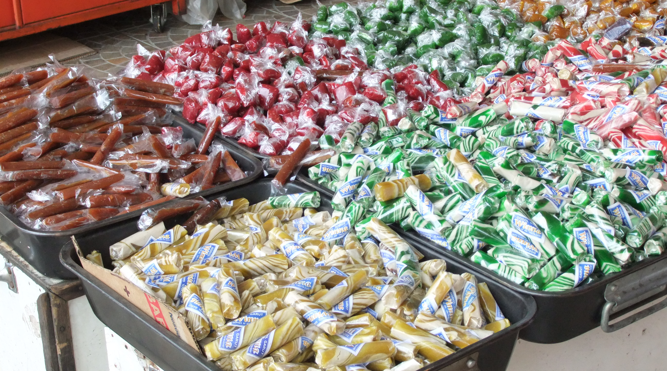 Dodol, rice flour cooked with palm sugar